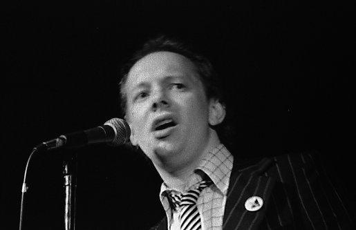 Joe Jackson at the El Macombo, Toronto, May 21, 1979